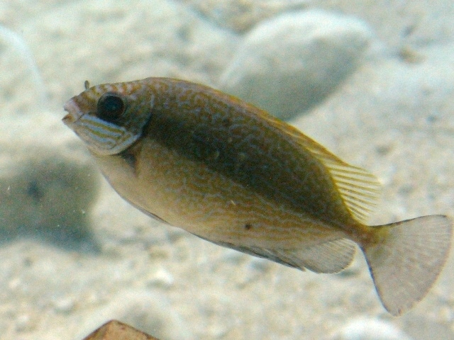 Siganus luridus photographed near Koufonissi (Greece)